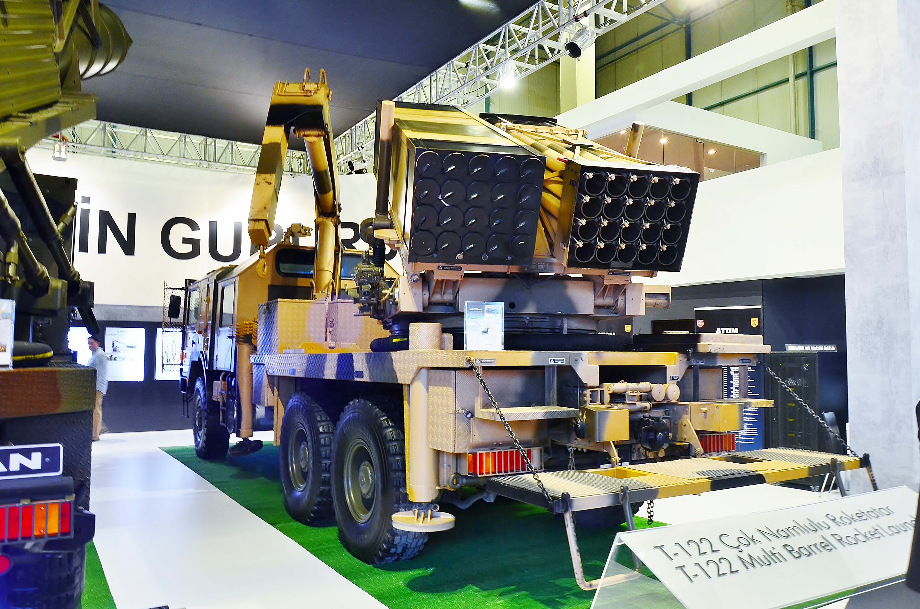 Artillery rockets of Roketsan at IDEF 2015